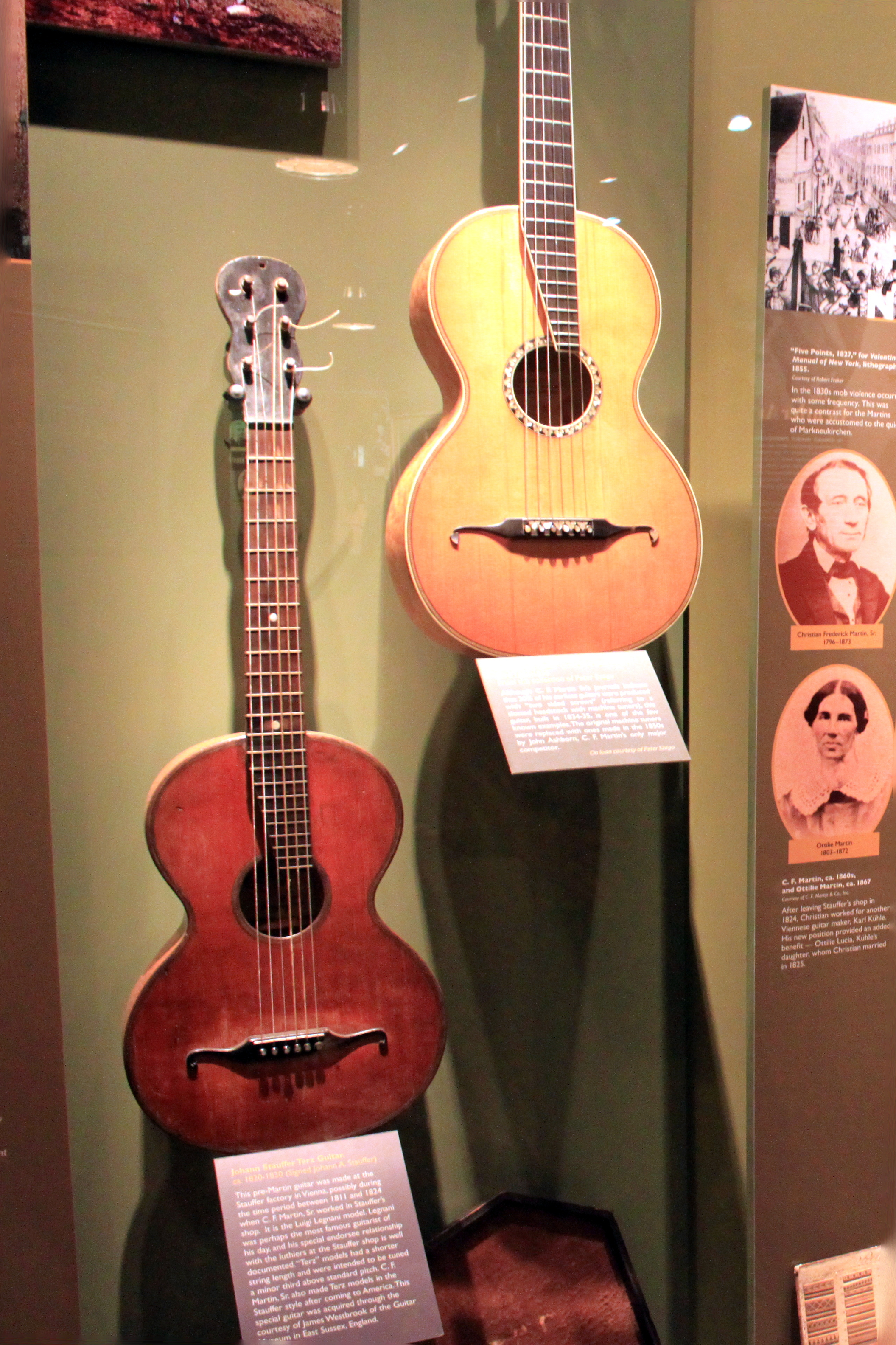 Stauffer Guitars & early Martin Guitars - C.F. Martin Guitar Factory 2012-08-06 - 004 Exhibits Vienna era Johann Stauffer Terz Guitar (c.1820-1830) (Vienna Stauffer-style guitar by C. F. Martin, Sr.) (1834-1835) Details Vienna era Johann Stauffer Terz Guitar (c.1820-1830) Johann Stauffer Terz Guitar ca. 1820-1830 (Signed Johann A. Stauffer) This pre-Martin guitar was made at the Stauffer factory in Vienna, possibly during the time period between 1811 and 1824 when C. F. Martin, Sr. worked in Stauffer's shop. It is the Luigi Legnani model. Legnani was perhaps the most famous guitarists of his day, and his special endorsee relationship with the luthiers at the Stauffer shop is well documented. "Terz" models had a shorter string length and were intended to be tuned a minor third above standard pitch. C. F. Martin, Sr. also made Terz model in the Stauffer style after coming to America. This special guitar was acquired through the courtesy of James Westbrook of the Guitar Museum in East Sussex, England. (Vienna Stauffer-style guitar by C. F. Martin, Sr.) (1834-1835) ... ... ... collection of Peter Stego Although C. F. Martin, Sr. ... ... that 3... of his earlier guitars were produced with "one sided screws" (referring to a sloped headstock with machine tuners), this guitar, built in 1834-35, is one of the few known examples. The original machine tuners were replaced with ones made in the 1850s by John Ashborn. C. F. Martin's only major competitor. On loan courtesy of Peter Stego